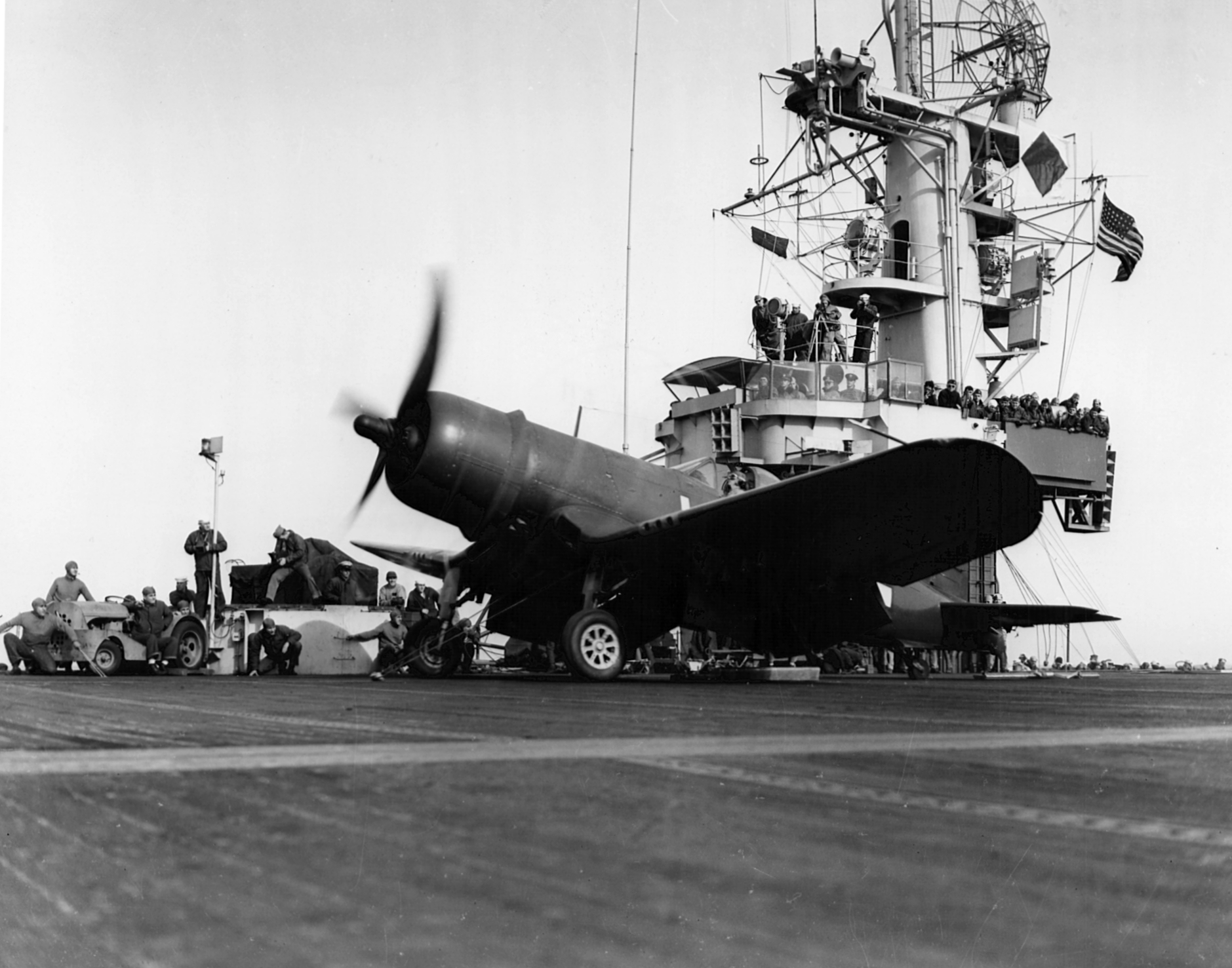 A U.S. Marine Corps Vought F4U-1D Corsair of Marine Fighter Squadron VMF-511 attached to Marine Carrier Air Group 1 (MCVG-1) is on the deck of the U.S. Navy escort carrier USS Block Island (CVE-106) preparing to launch. MCVG-1 was the first all-Marine carrier air group in the Second World War.